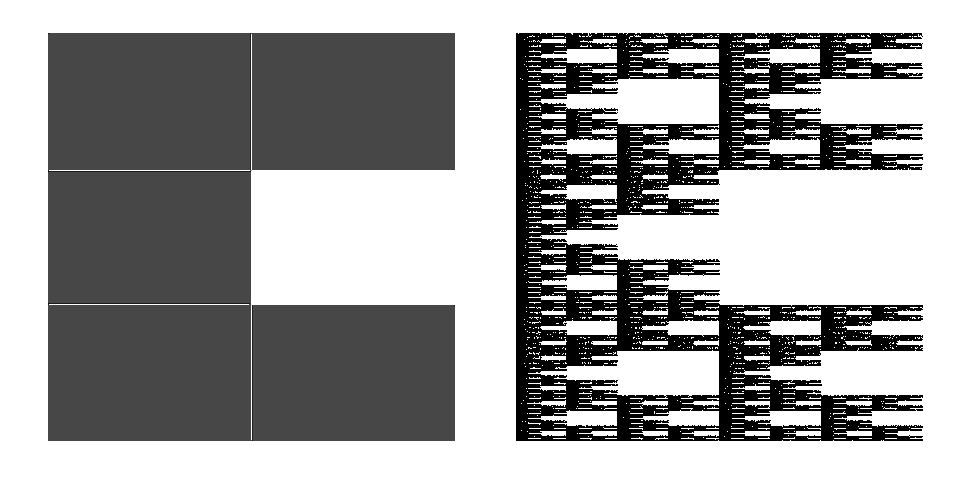 A self-affine fractal set. Build iteratively from a p × q {\displaystyle \scriptstyle {p\times q array with p ≤ q {\displaystyle \scriptstyle {p\leq q . Its Hausdorff dimension equals log ⁡ ( ∑ k = 1 p n k a ) / log ⁡ p {\displaystyle \log {\left(\sum _{k=1}^{p}n_{k}^{a}\right)}/\log {p with a = log ⁡ p / l o g q {\displaystyle a=\log {p}/log{q and n k {\displaystyle n_{k is the number of elements in the k t h {\displaystyle k^{th column. Here it is 1.8272. The box-countig dimension yields a different formula, therefore, a different value. Unlike self-similar sets, the Hausdorff dimension of self-affine sets depends on the position of the iterated elements and there is no formula, so far, for the general case